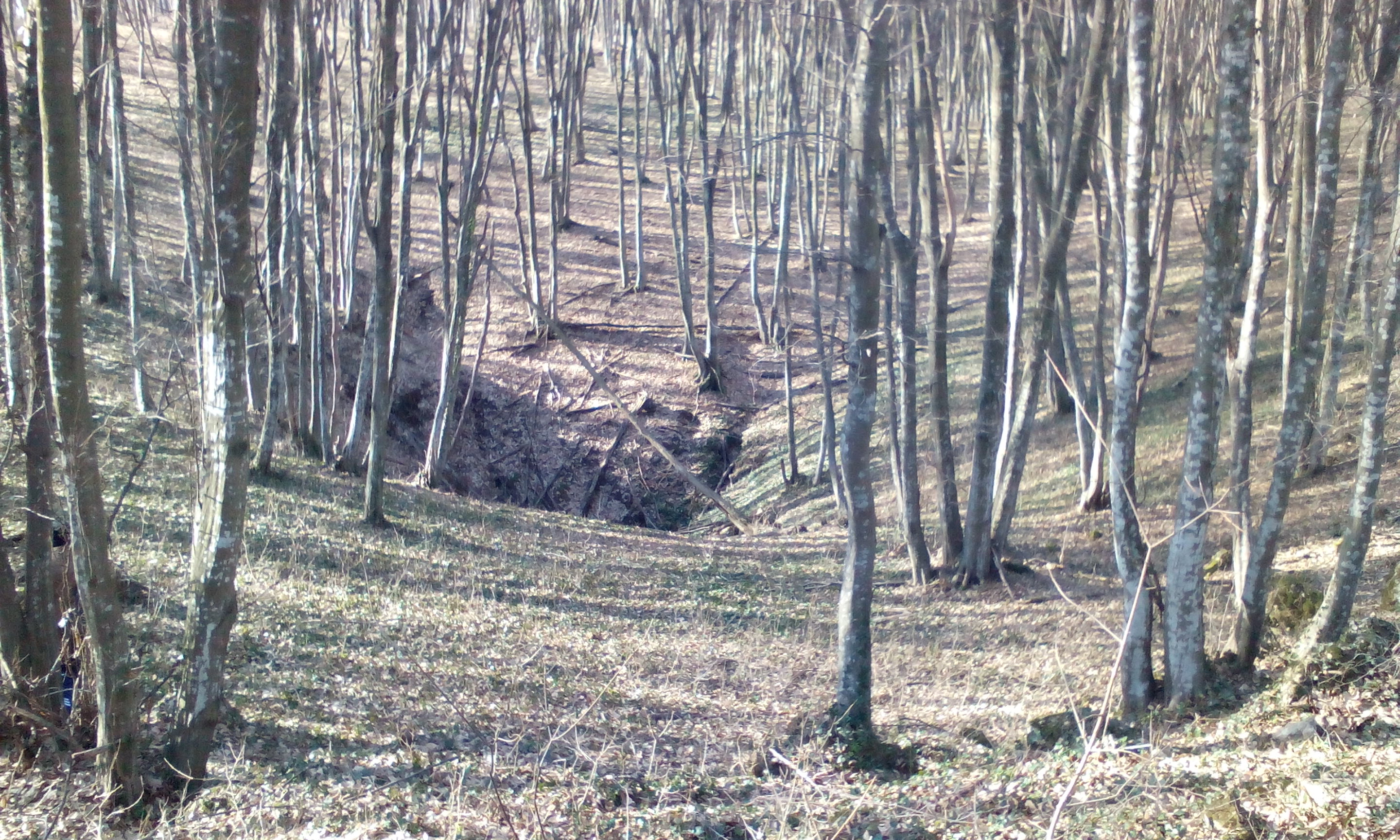 Shumen Plateau